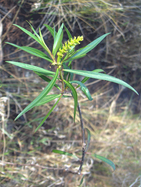 Found in Collier-Seminole State Park, Florida